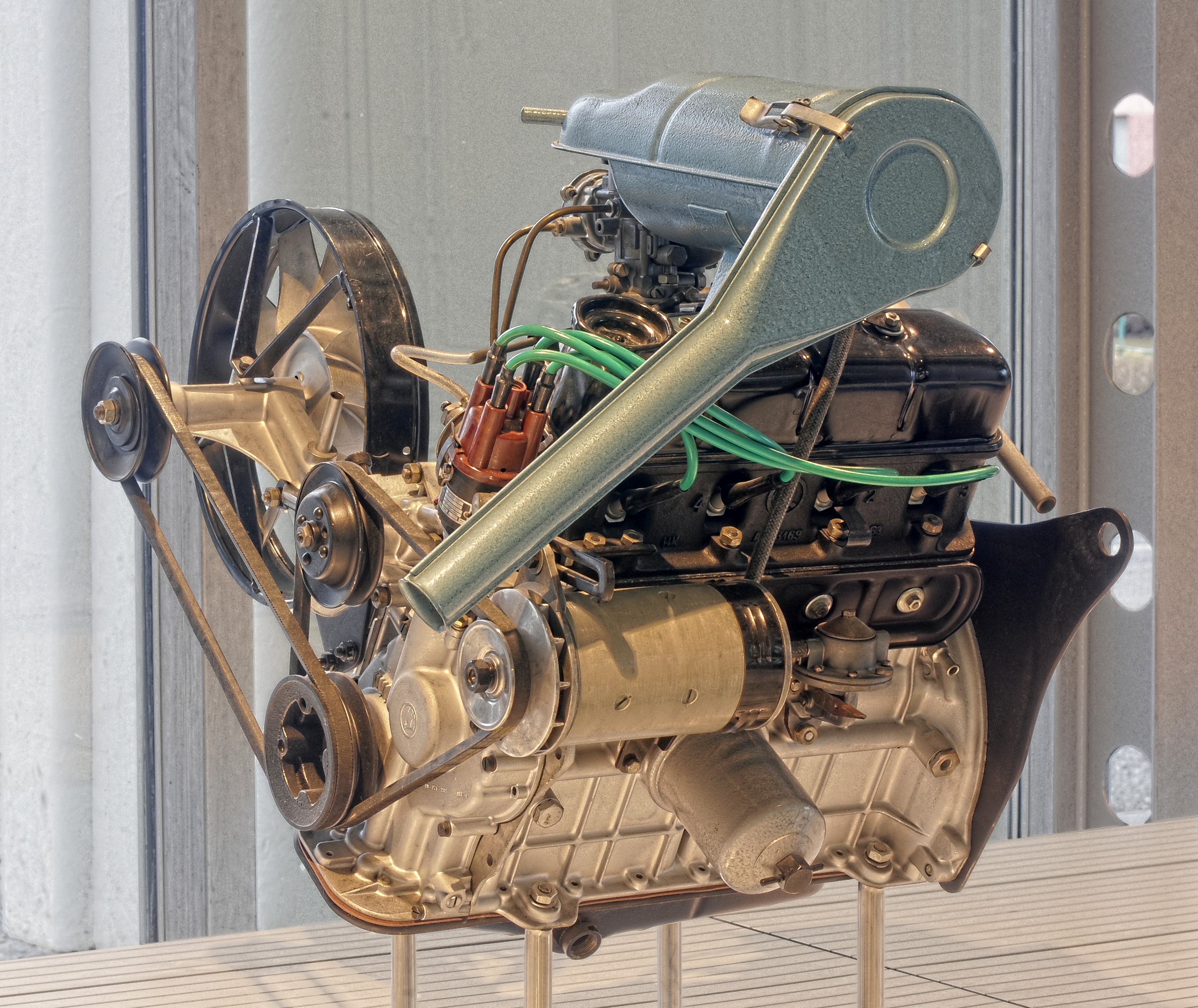 Motor Škoda 1000MB/S100